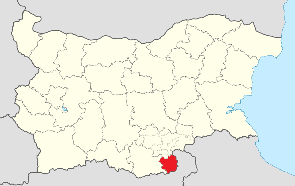 Location map of Ivaylovgrad Municipality within Bulgaria and Haskovo Province